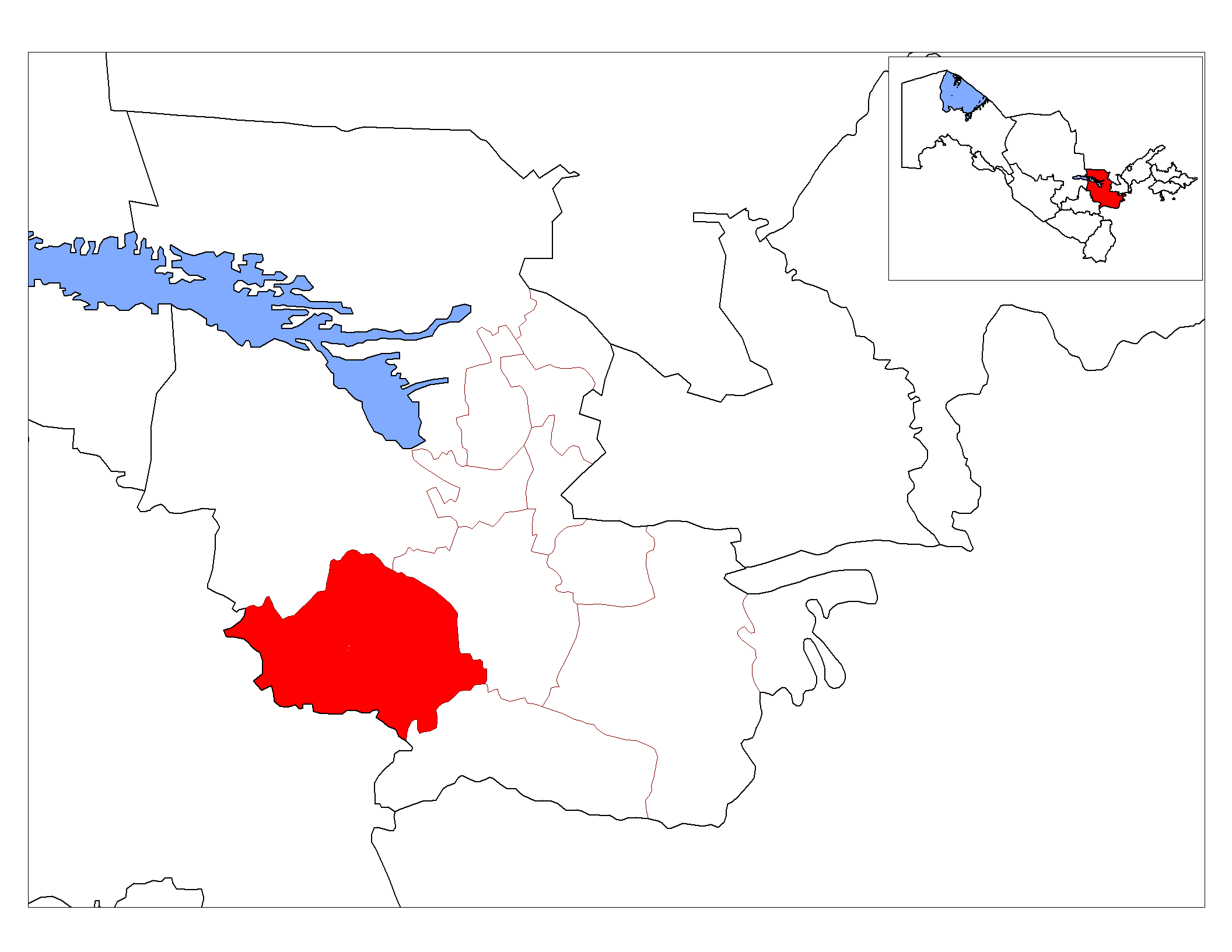 Location map of G’allaorol District in Jizzax Province, Uzbekistan